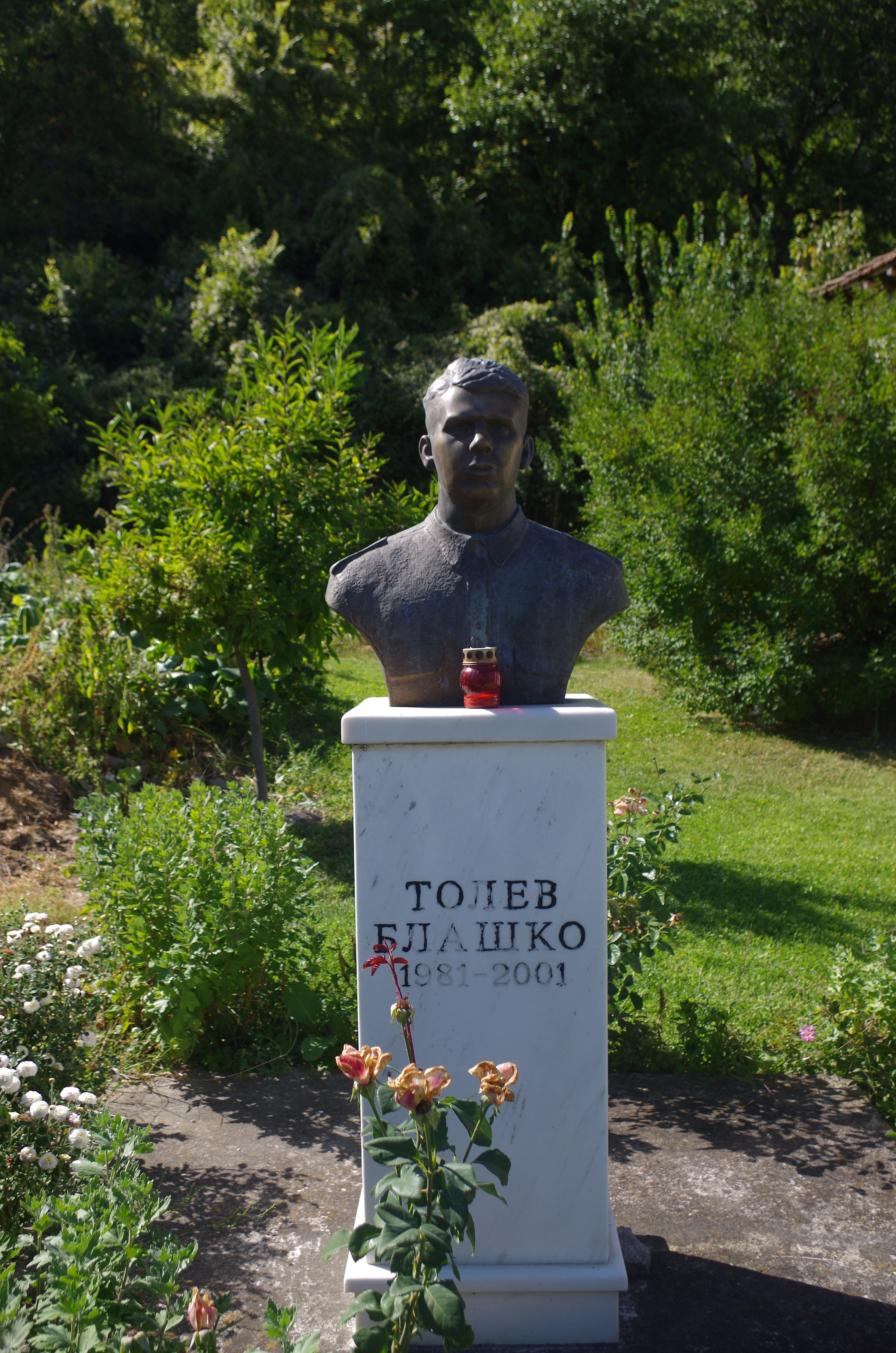 Monument of Blaško Tolev (1981-2001) in the village of Dolna Bošava